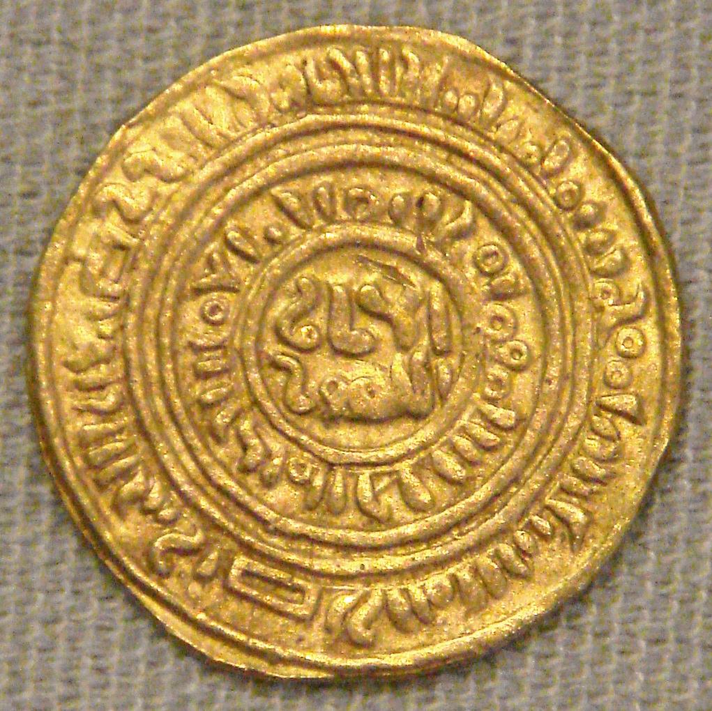 Calif_al_Amir_Tyre_1118_CE